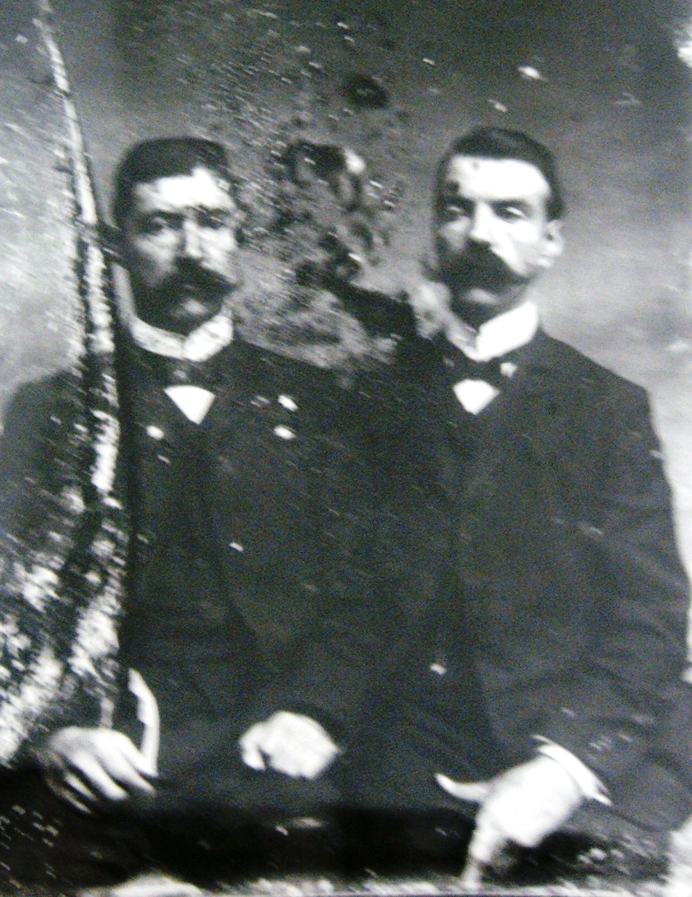 Brothers Milan (right) and Hristo Matov, photographed in the studio of the brothers Manaki in Bitola 1908 (Damaged glass plate) This media file is produced by Wikipedian in Residence in Category:Wikipedian in Residence at DARM in 2016.